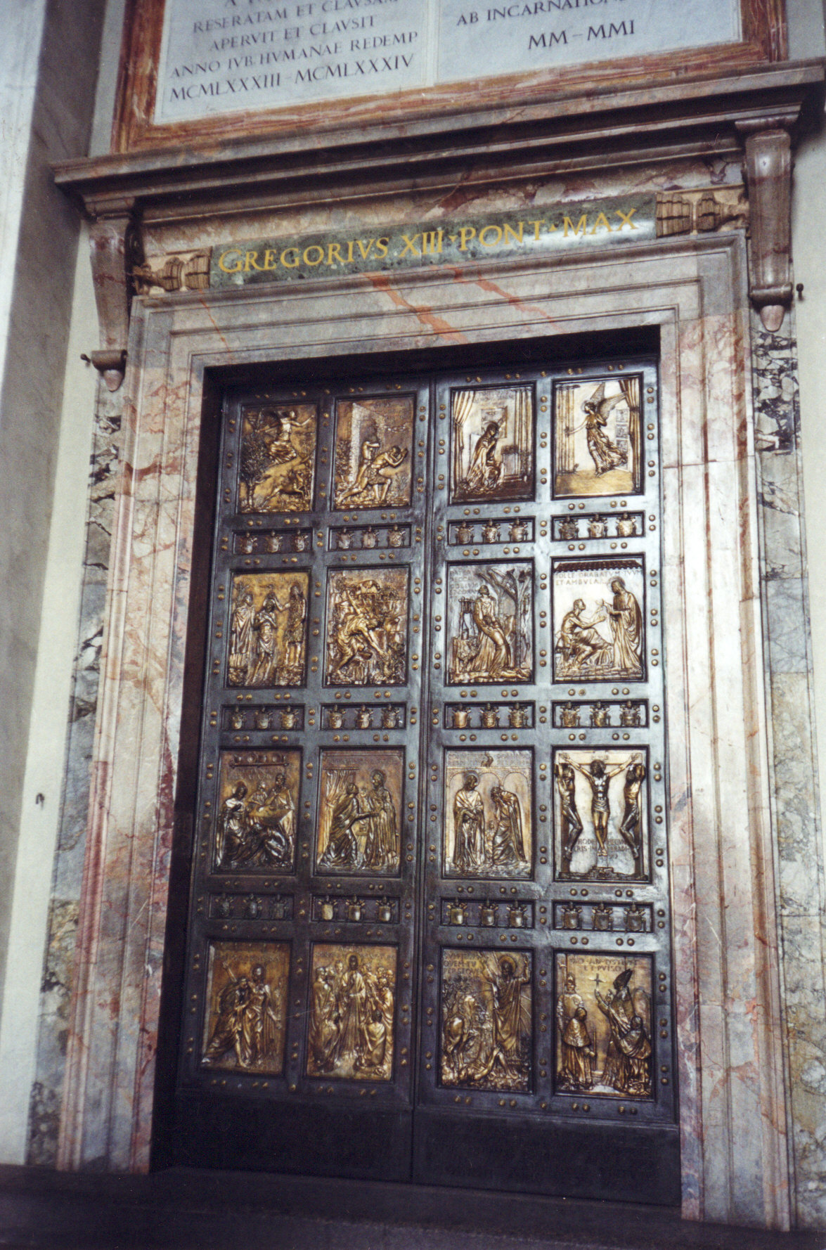 HOly Door in Sain Peter Basilica, Rome (Italy)